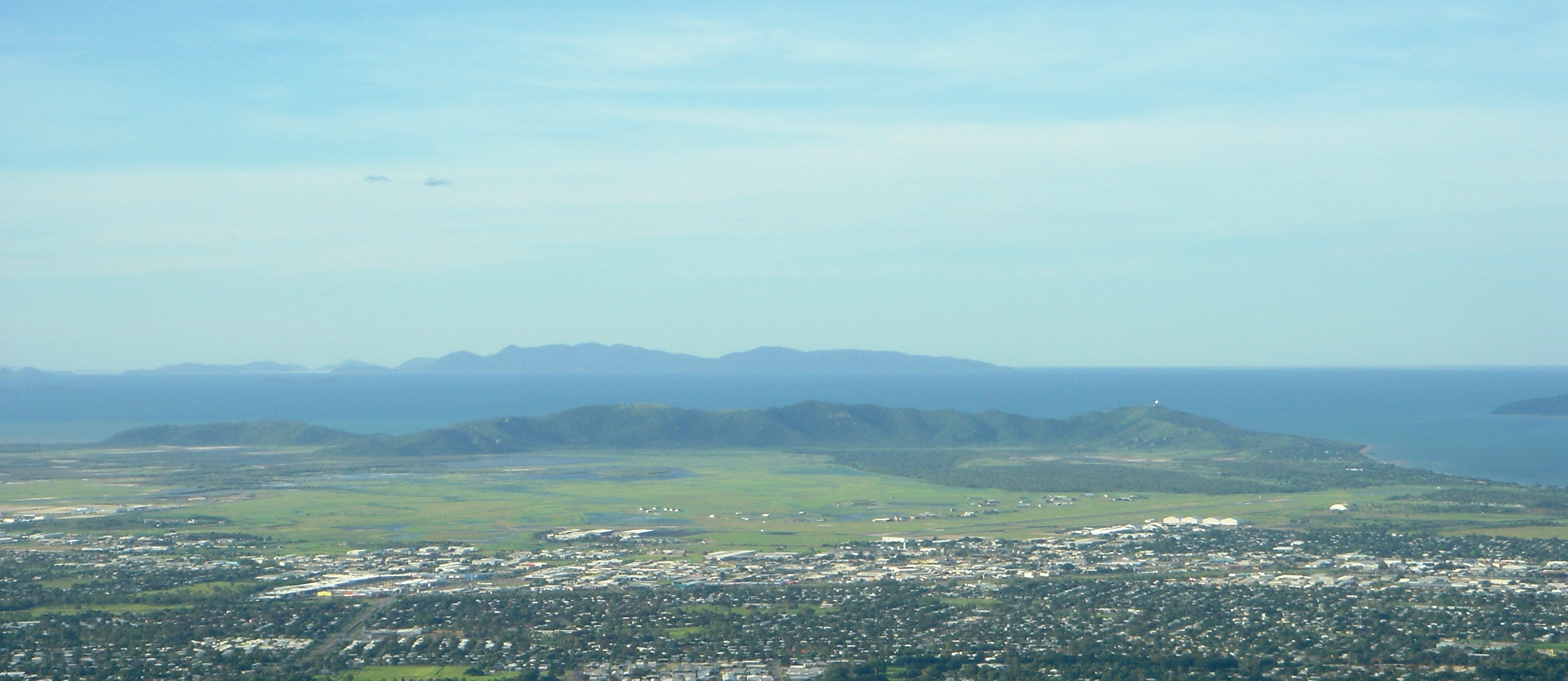 Panorama of Townsville from Mt Stuart